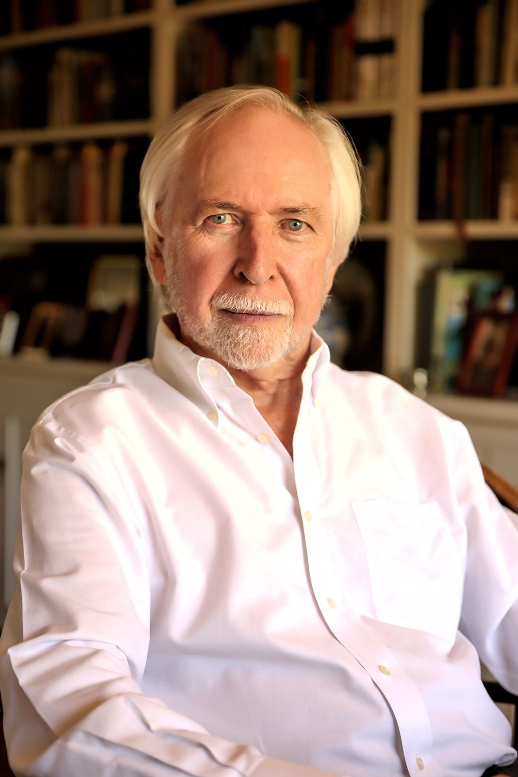 Jack Miles, award-winning author and writer, sits in his home among his books.